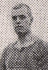 Fred Hobson at Brentford FC 1904/05